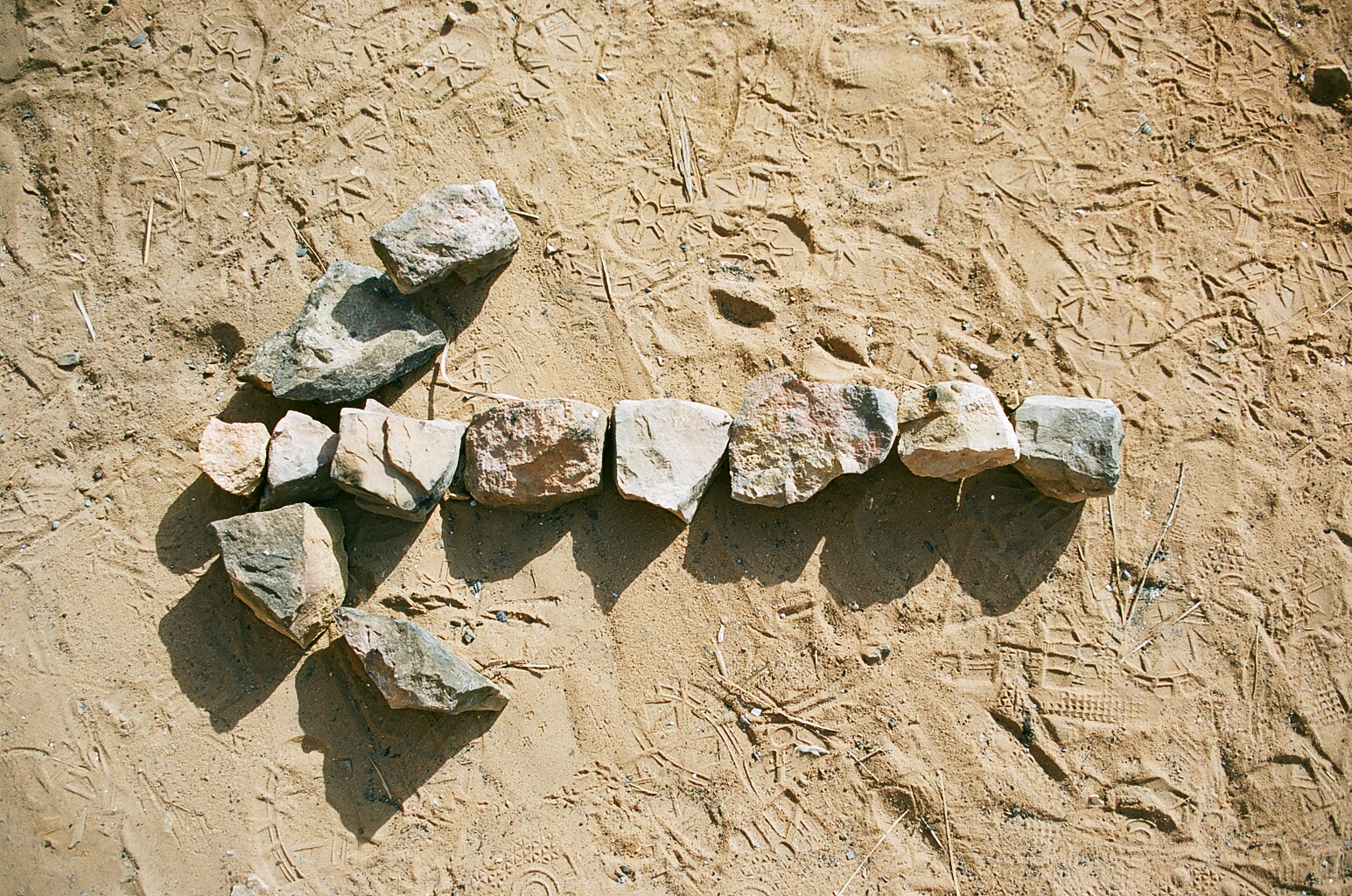 Arrow pointing left stones in a desert, arranged for taking this picture